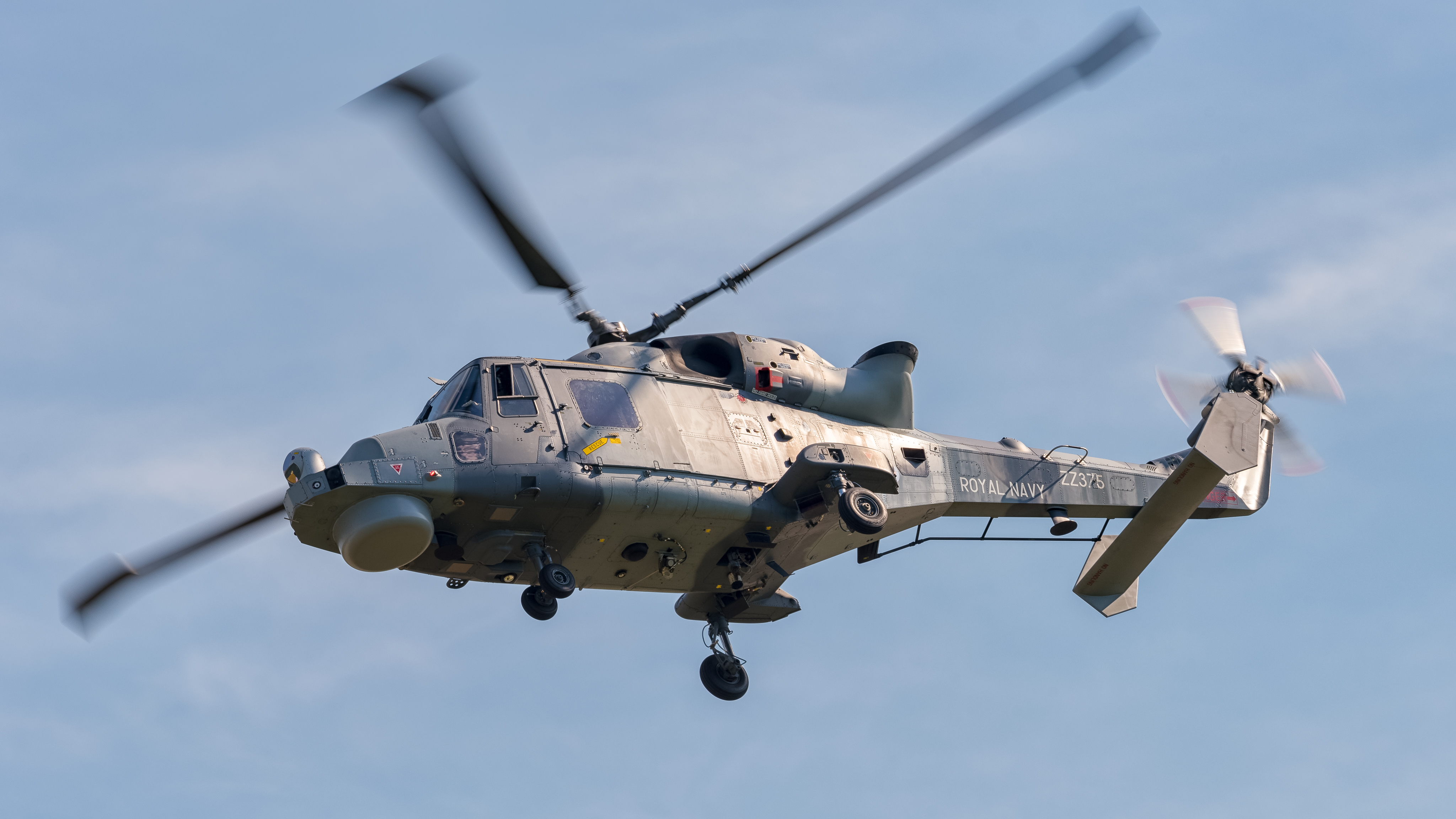 United Kingdom Royal Navy Black Cats display team AgustaWestland AW159 Wildcat HMA2 (reg. ZZ375, cn 494) at ILA Berlin Air Show 2016.